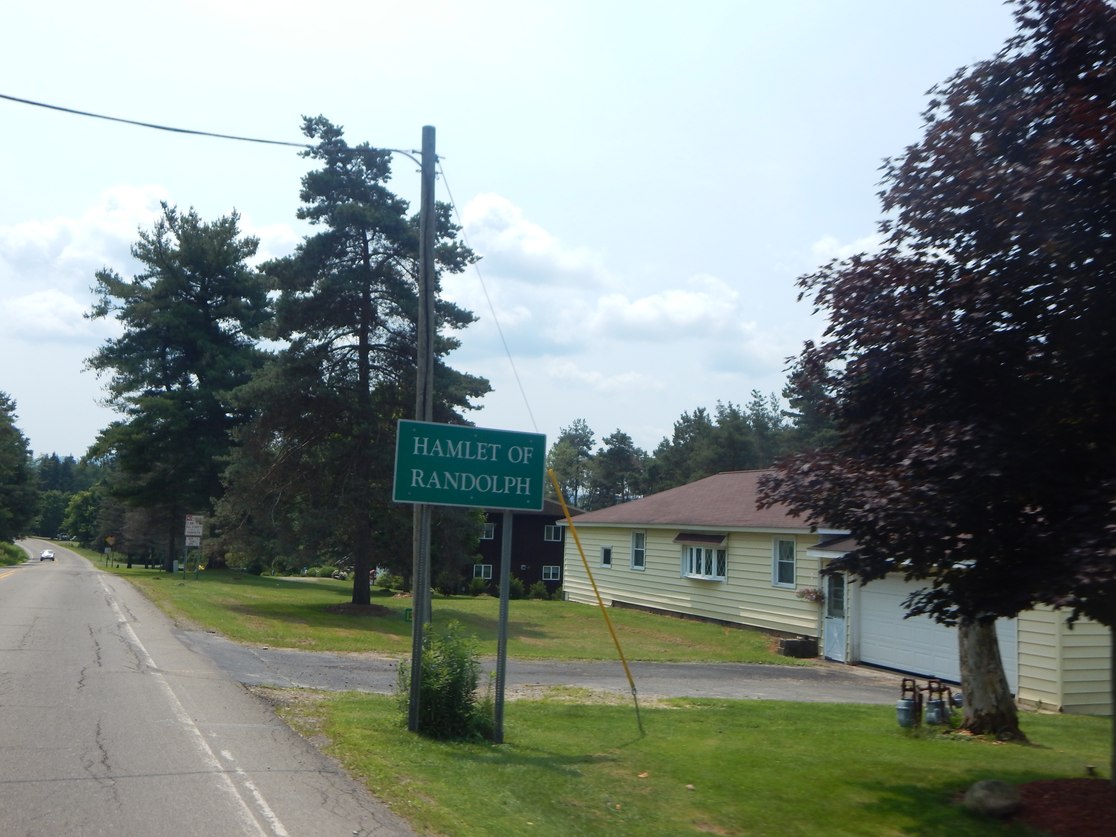 Signage for Randolph hamlet, New York in June 2015.